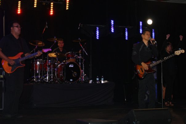 Rojo performing in El Salvador